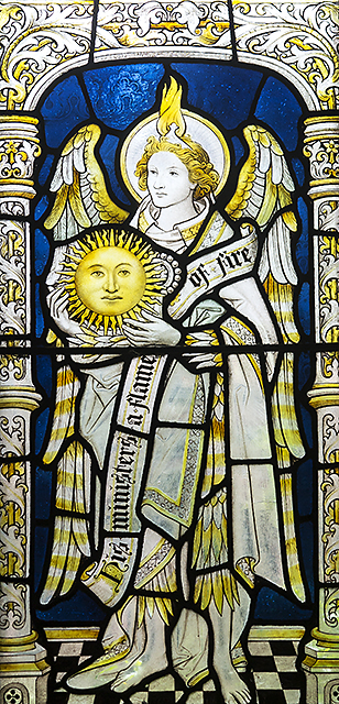 Saint Uriel (meaning ‘God is my light’ or ‘light of God’), one of four stained glass windows in the cloisters of Chester Cathedral depicting the Archangels mentioned in the Christian Bible. Regent of the sun, Uriel is often depicted holding flame or the sun in his hands. Inscription: ‘his ministers a flame of fire’.